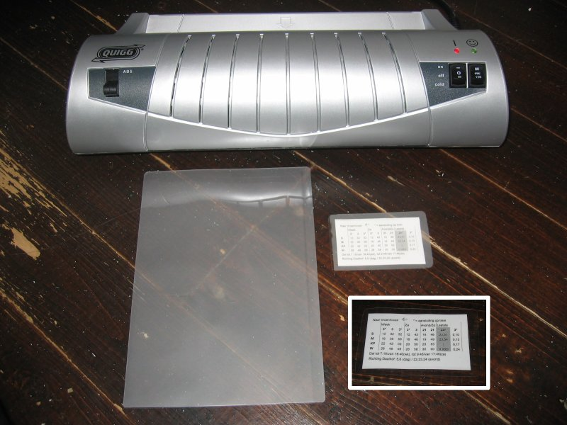 A pouch laminator. In fromt of the laminator are a pouch for A5 paper and a creditcard-sized pouch filled with a chart, ready to be laminated. Inset: the laminated pouch.